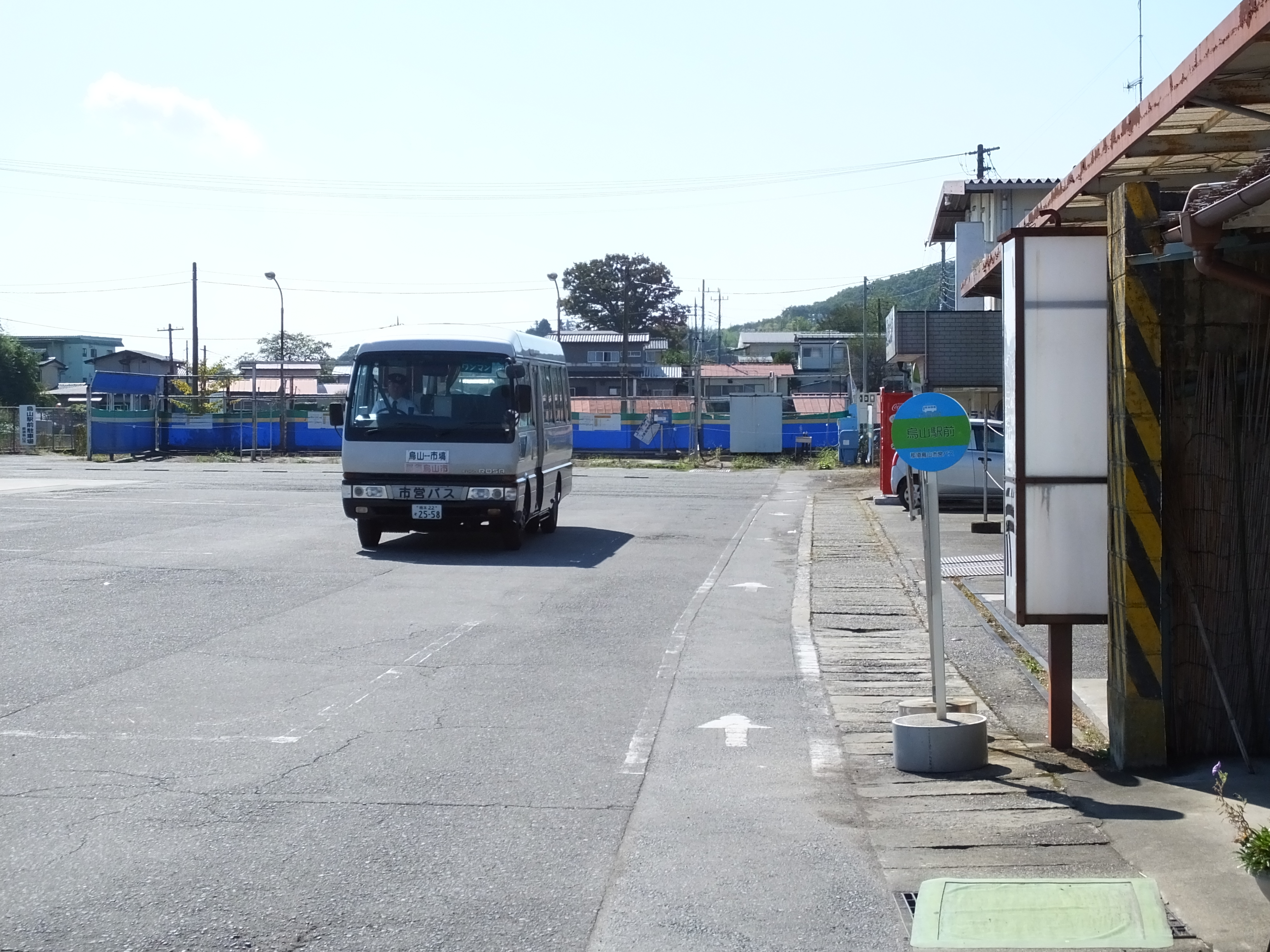 In Nasukarasuyama city, Tochigi prefecture, Japan.